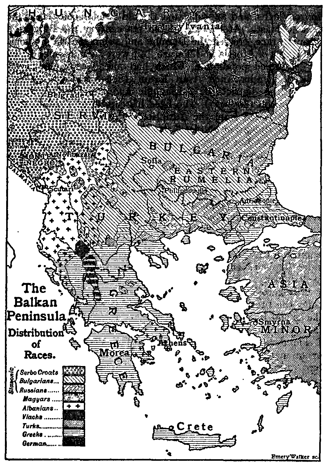 Illustration from 1911 Encyclopædia Britannica, article BALKAN PENINSULA. Distribution of Races.